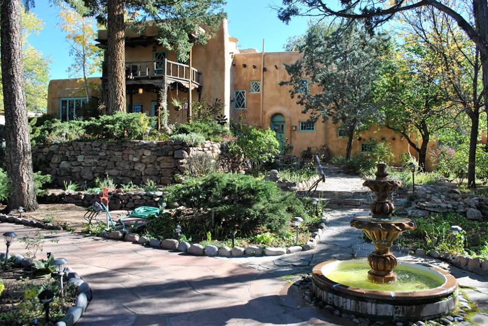 Image originally published in Queer Places: Retracing the Steps of LGBTQ people around the World Authored by Elisa Rolle